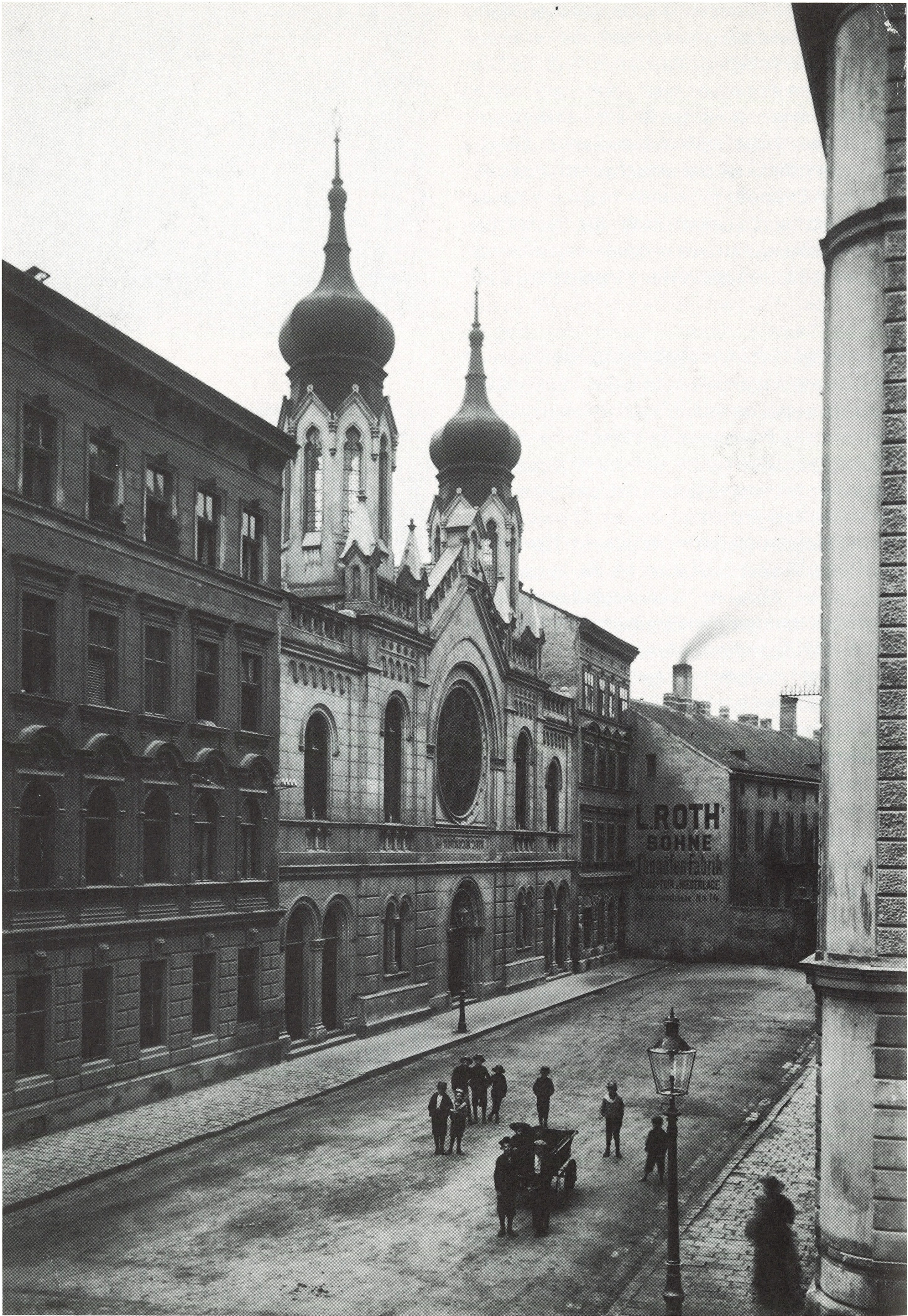 Image of the Brigittenauer Tempel in Vienna.